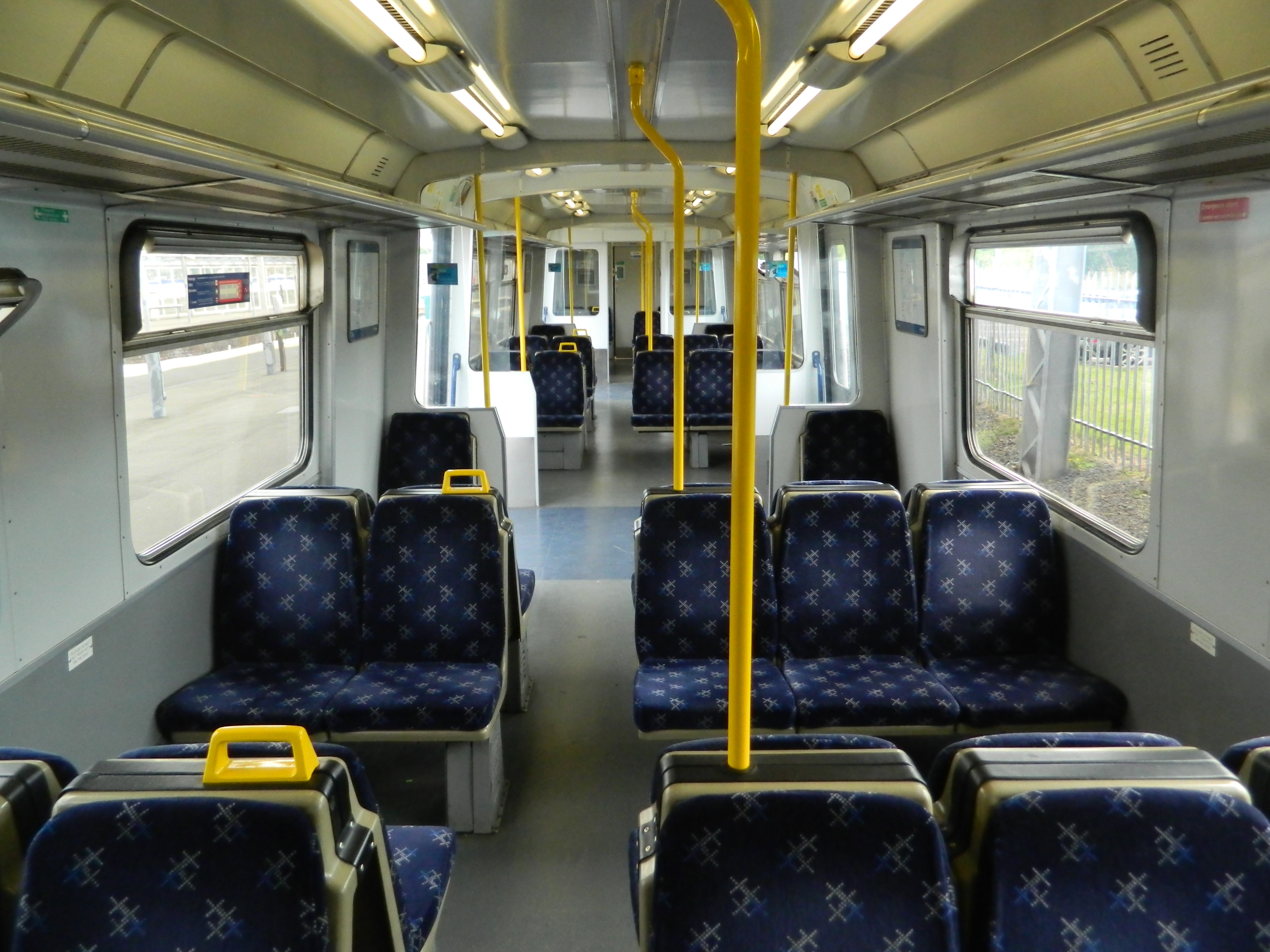 The ScotRail Saltire interior of 314211.